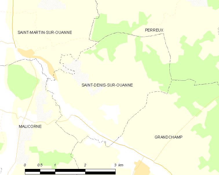 Map of French municipality Saint-Denis-sur-Ouanne